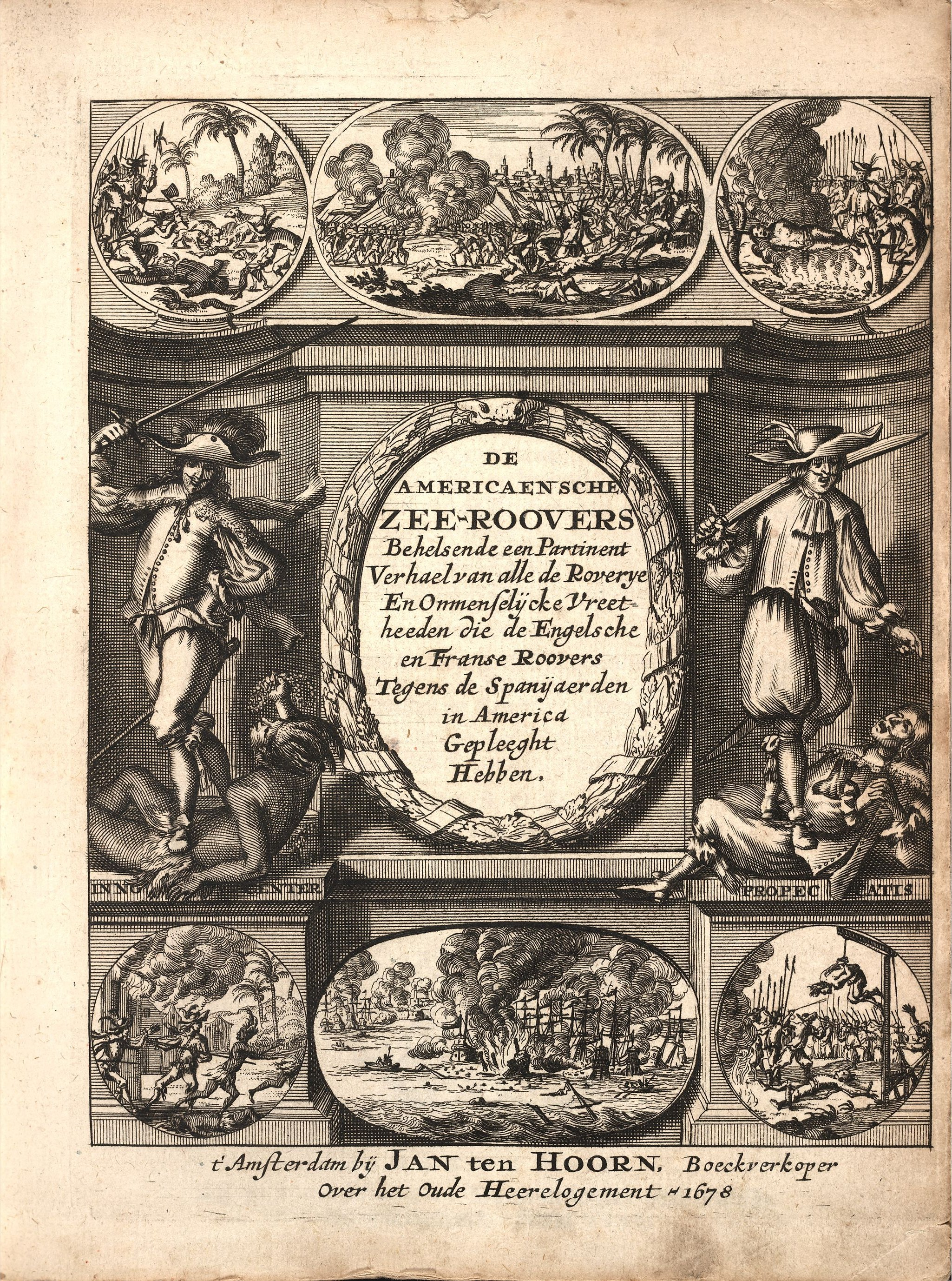 Page number 1 of The Buccaneers of America